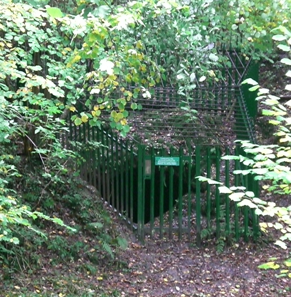 The western portal of the disused Greywell Tunnel. Southwest of Heather Row Bridge near Up Nately village, Hampshire, UK.